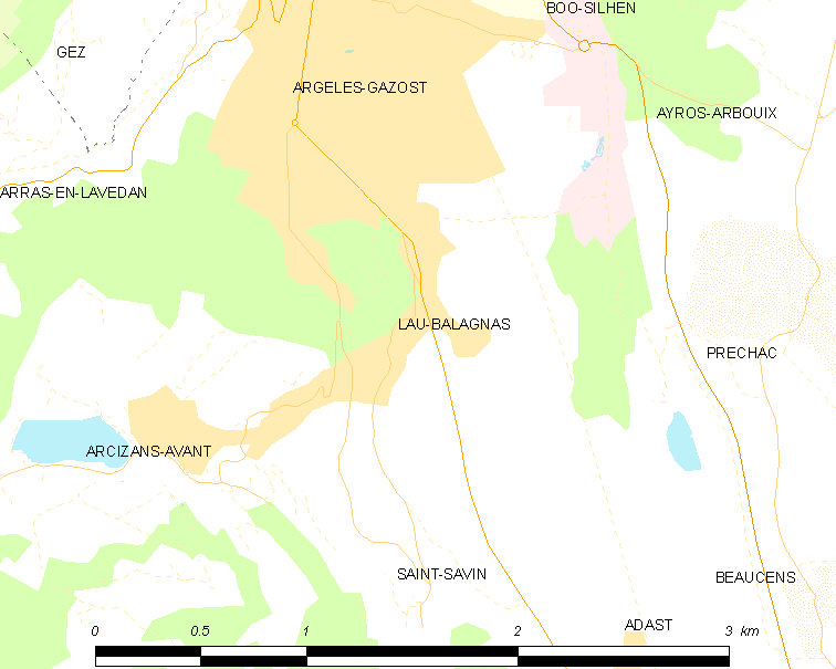 Map of French municipality